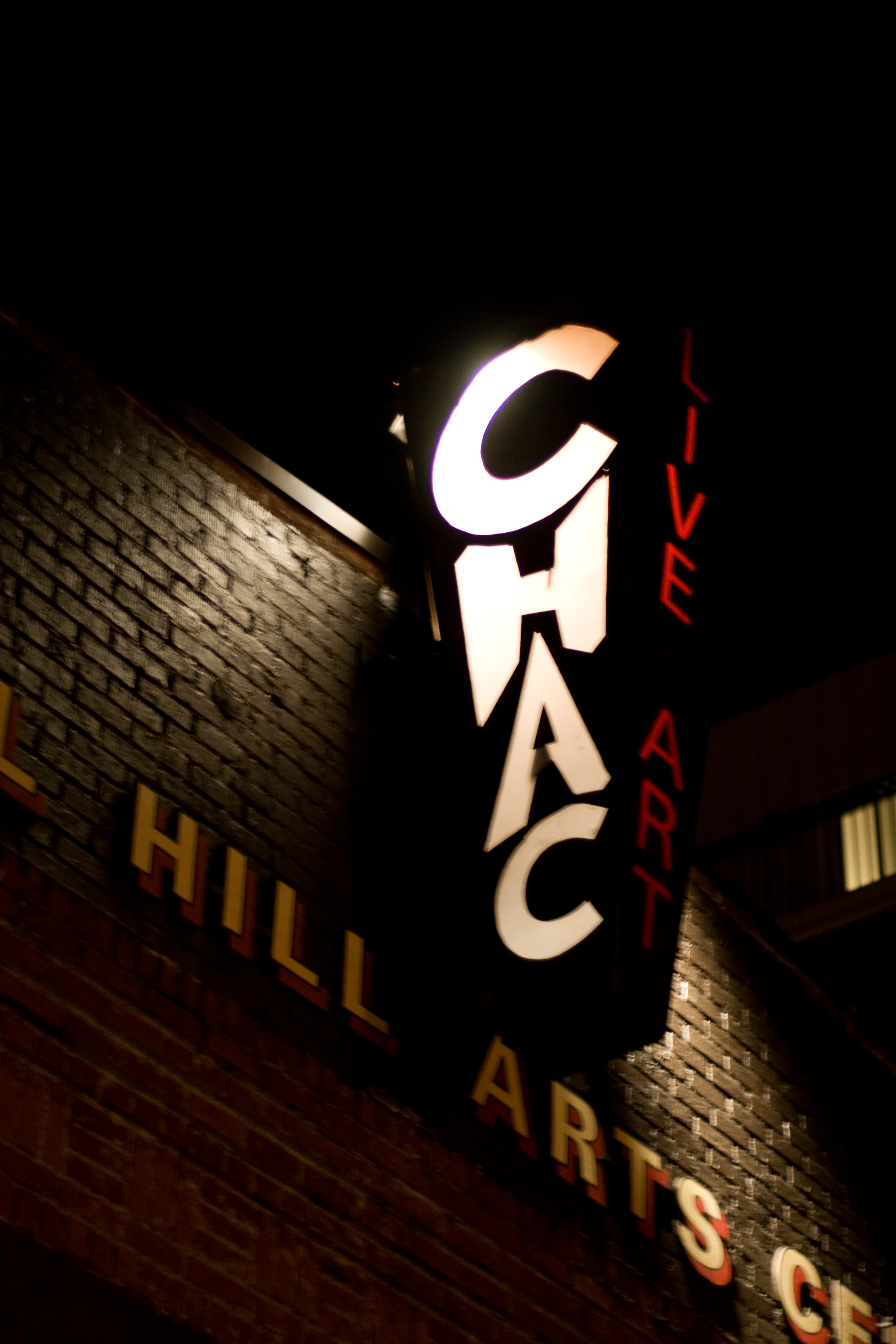 CHAC - Ignite Seattle 4